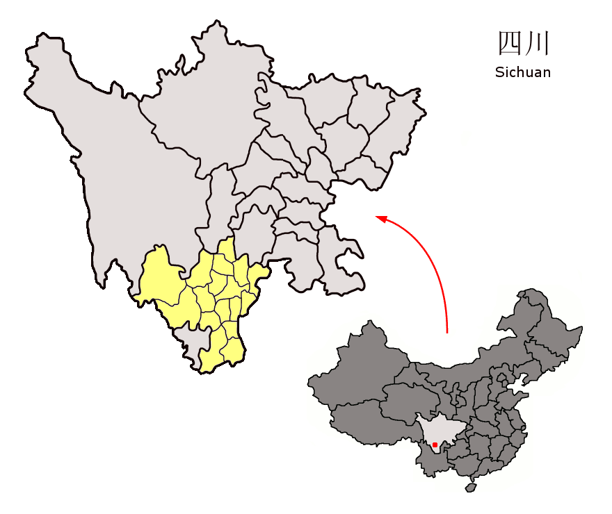 Location of Liangshan Prefecture (yellow) within Sichuan province of China Map drawn in september 2007 using various sources, mainly : Sichuan province administrative regions GIS data: 1:1M, County level, 1990 Sichuan Counties map from